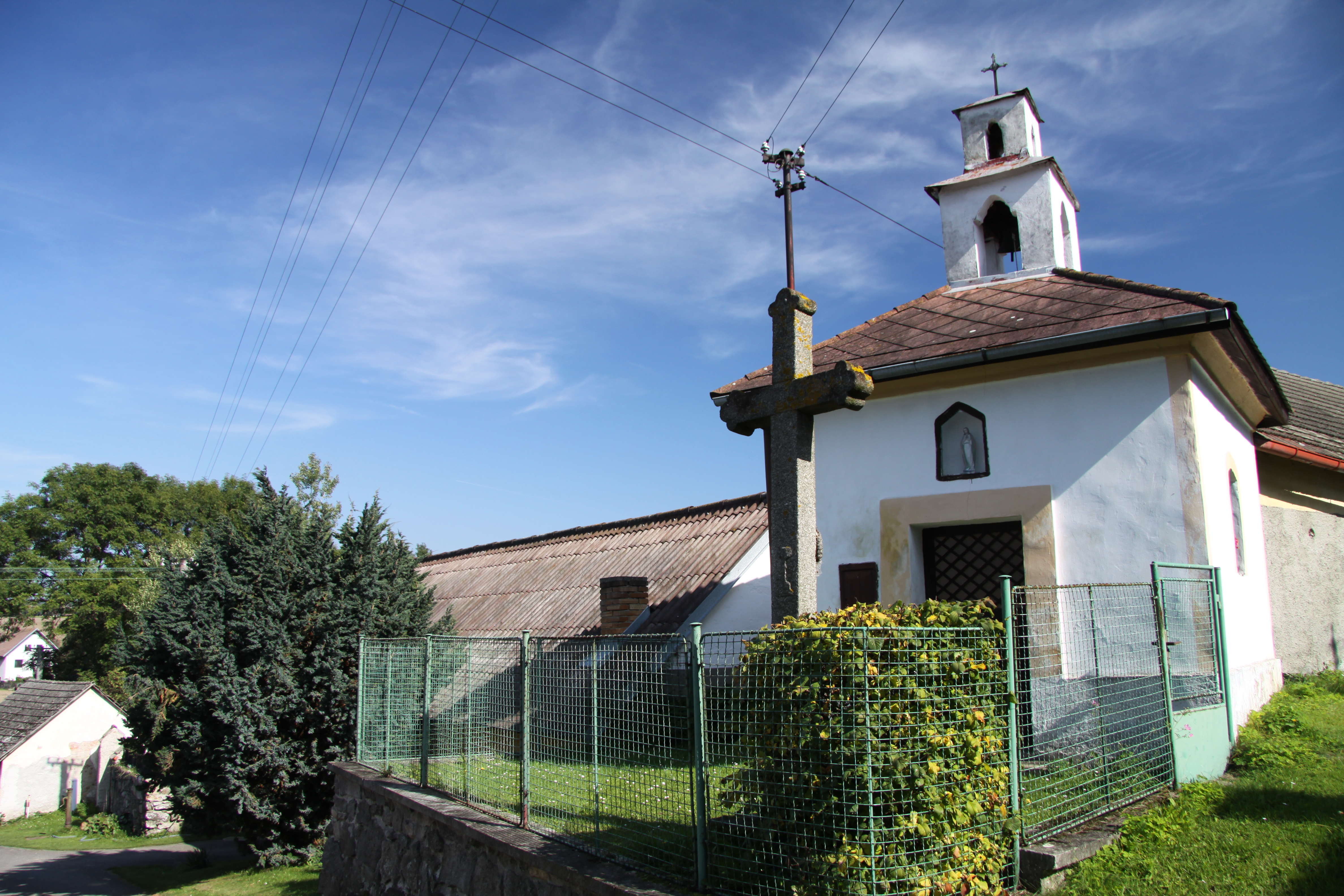 Chapel in Branišovice, part of Chyšky village in Písek District, Czech Republic